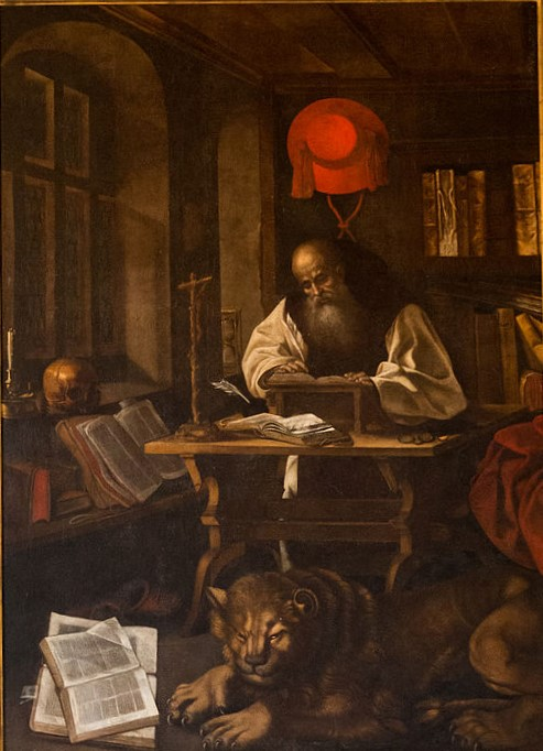 Above the miracle of the five loaves and two fish a Saint Jerome in habit of Hieronymites